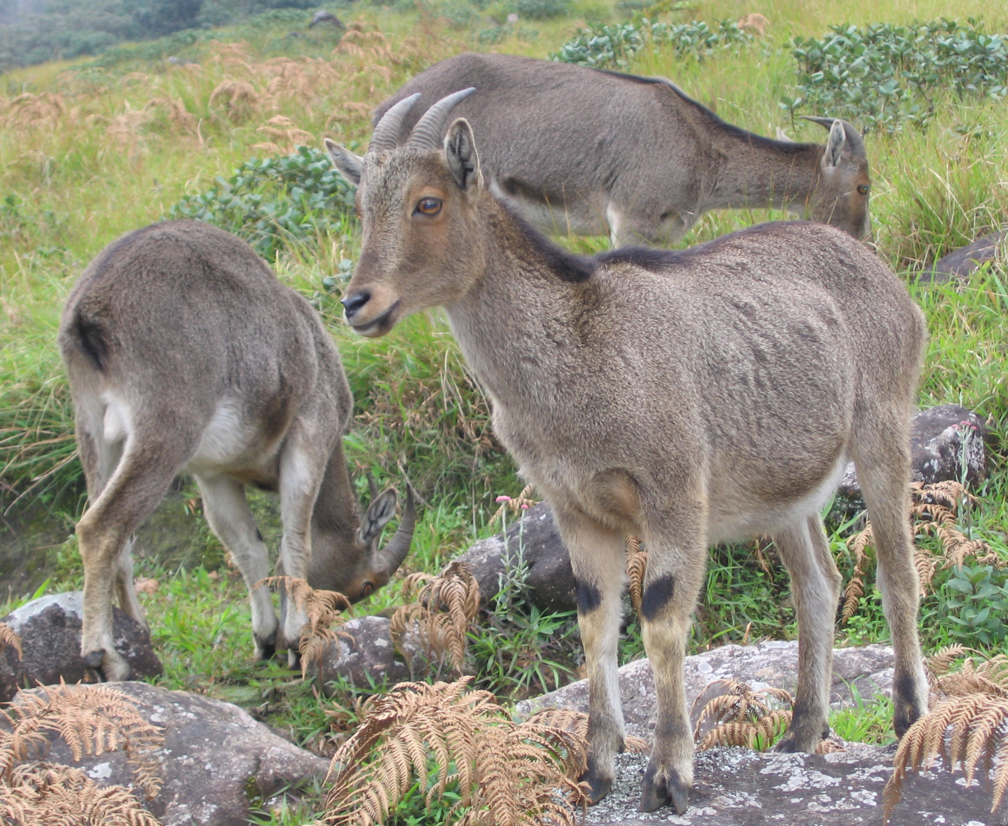 Munnar - views from Munnar